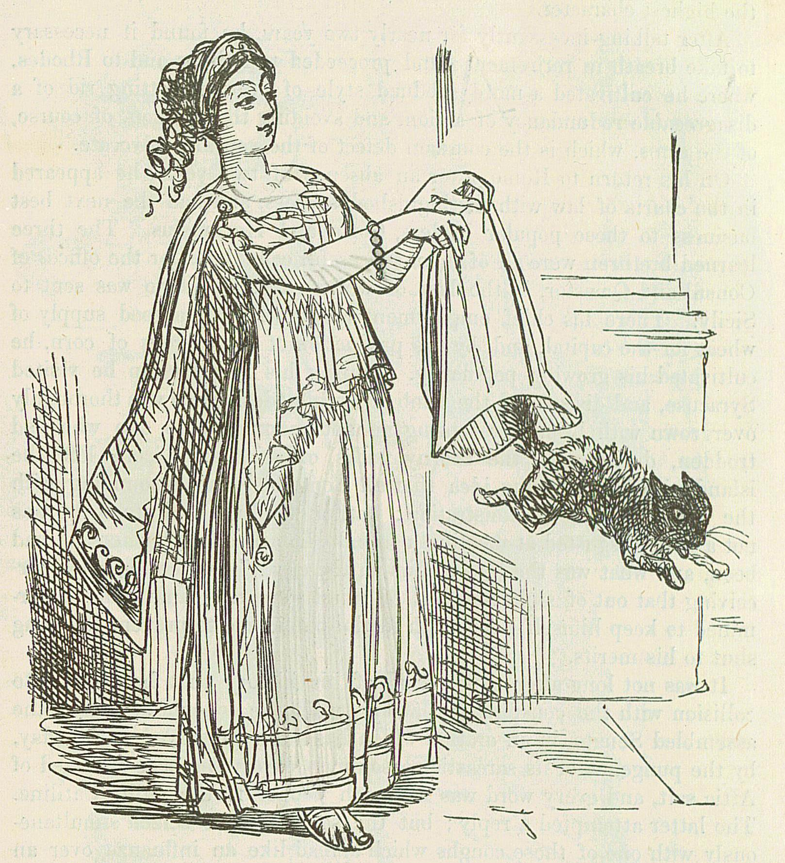 Image by John Leech, from: The Comic History of Rome by Gilbert Abbott A Beckett. Bradbury, Evans & Co, London, 1850s Fulvia